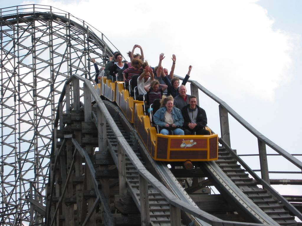 Roller coaster Colossos in the German Heide Park